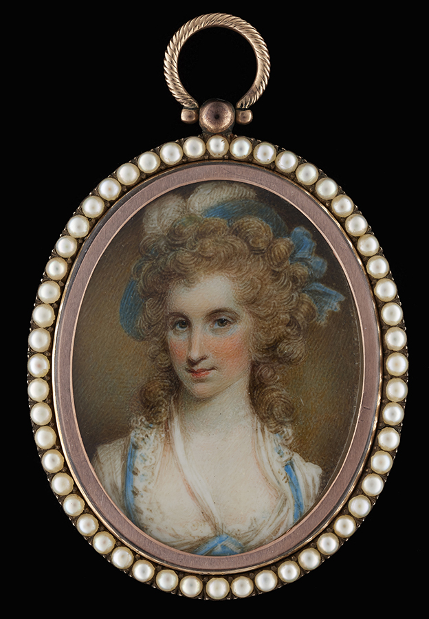 Portrait miniature by Samuel Shelley (1750–1808), thought to depict Angelica Schuyler Church (1756–1814), wearing a white dress with blue trim and lace collar, a blue hat with bow decorated with a white feather, her hair worn with hanging ringlets Watercolour on ivory 18th Century Oval, 1 7/8in, (48mm) high Provenance: Edward Grosvenor Paine by whom sold; Christie’s, London, 28 October 1980, lot 103; Private collection, France.